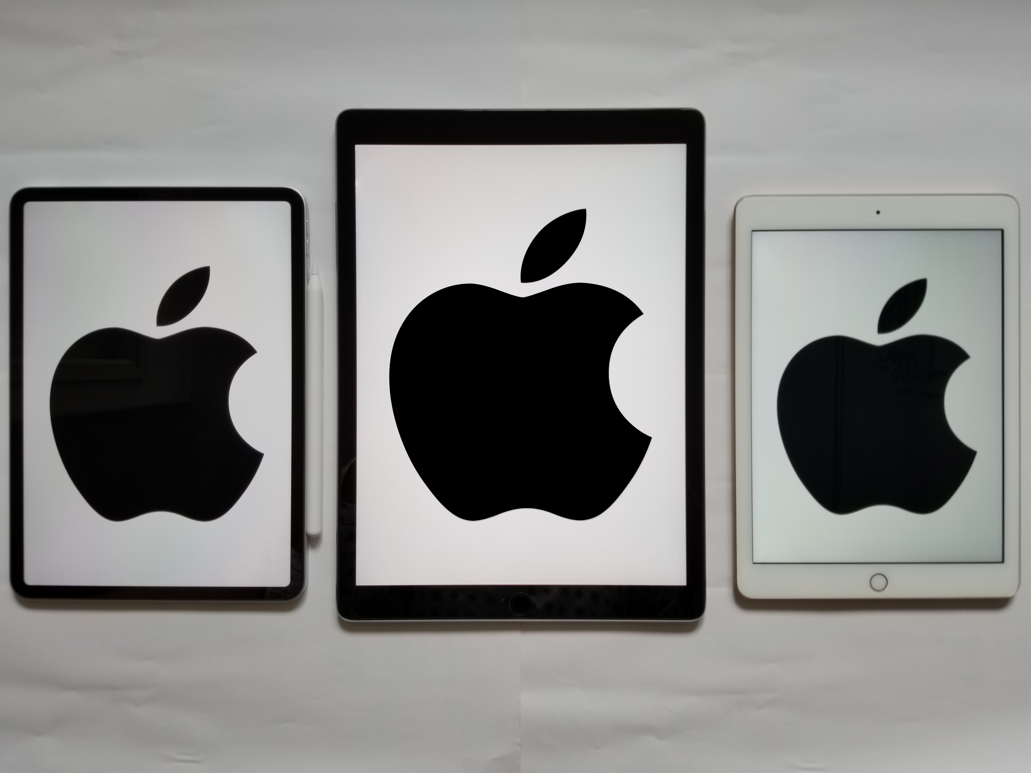 iPad 9.7″ (gold) iPad Pro 12.9″ (space gray) iPad Pro 11″ (silver)